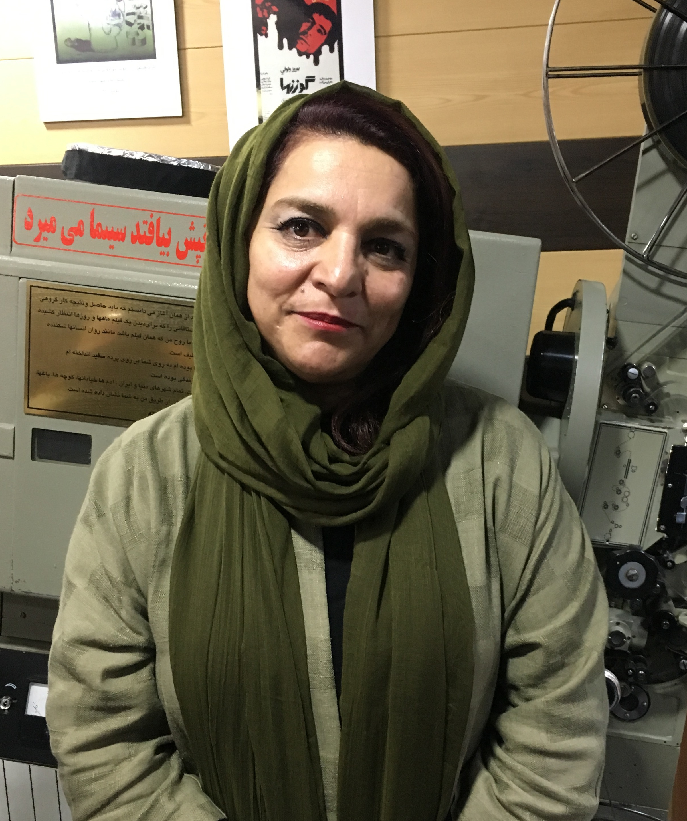 Tahmineh Milāni is an iranian professional film director, screenwriter, and producer.